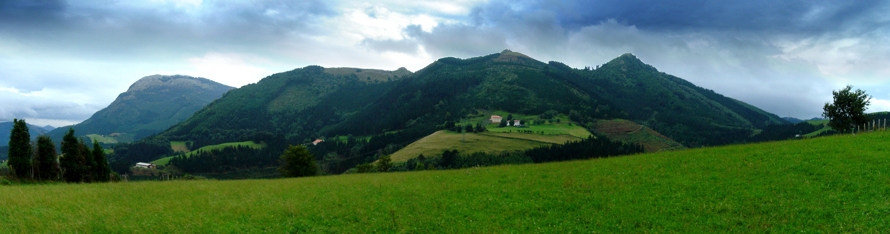 Mountain view from Endoia (Deba/Zestoa, Guipuscoa)